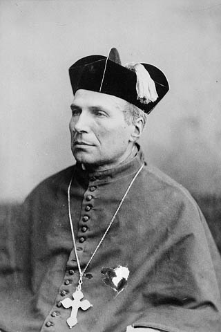 Right Rev. Jean Francois Jamot, Bishop of Peterborough, Ont